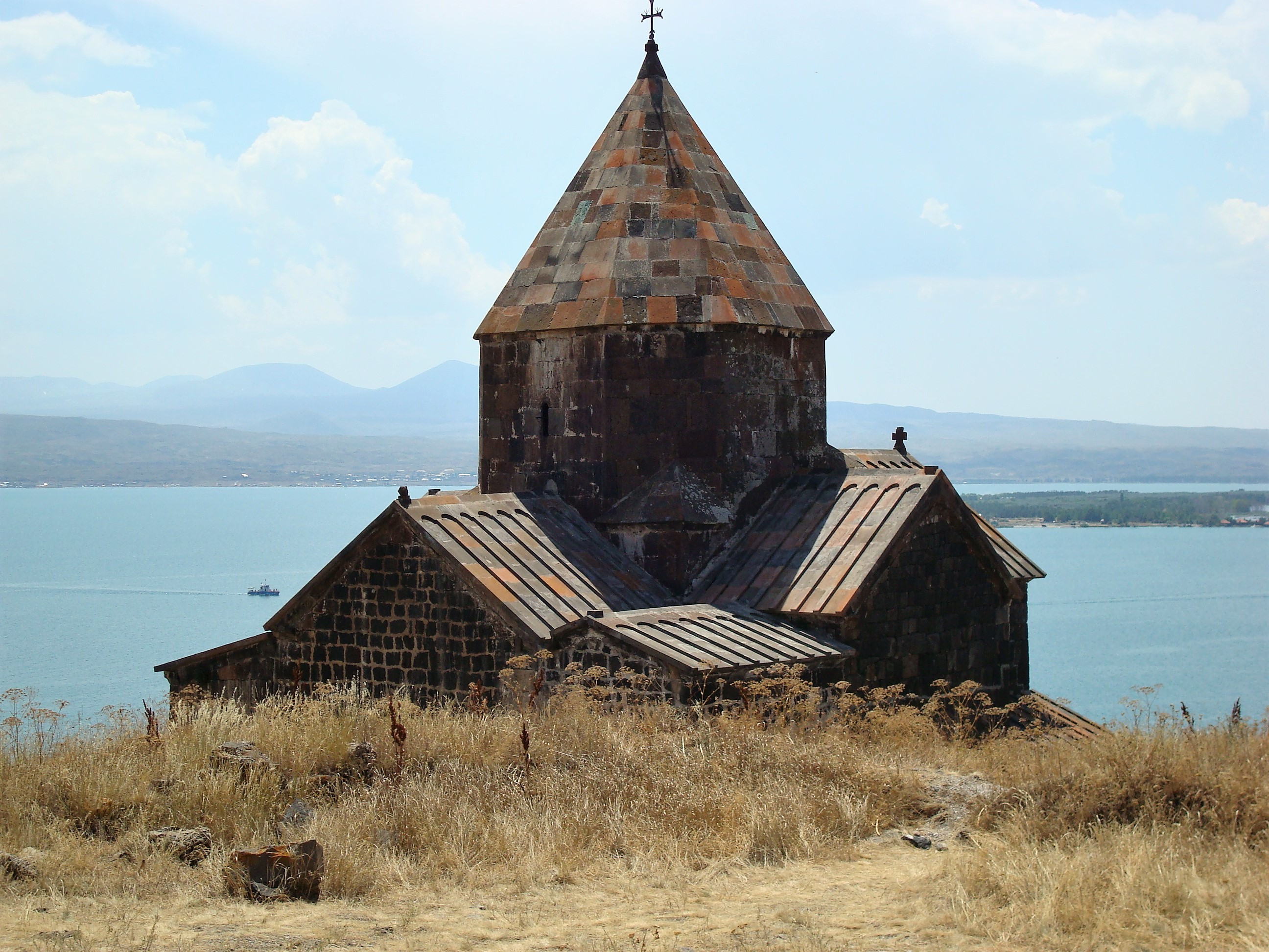 Surb Arakelots at Sevanavank